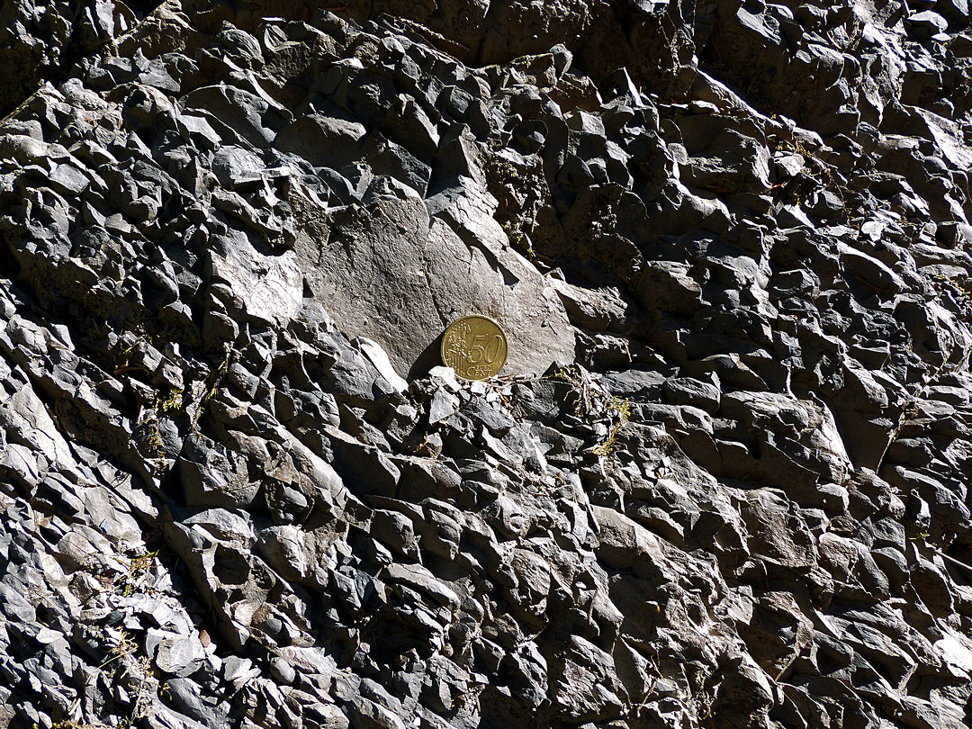 Outcrop of dark grey Partnach marl west of the Partnach Gorge